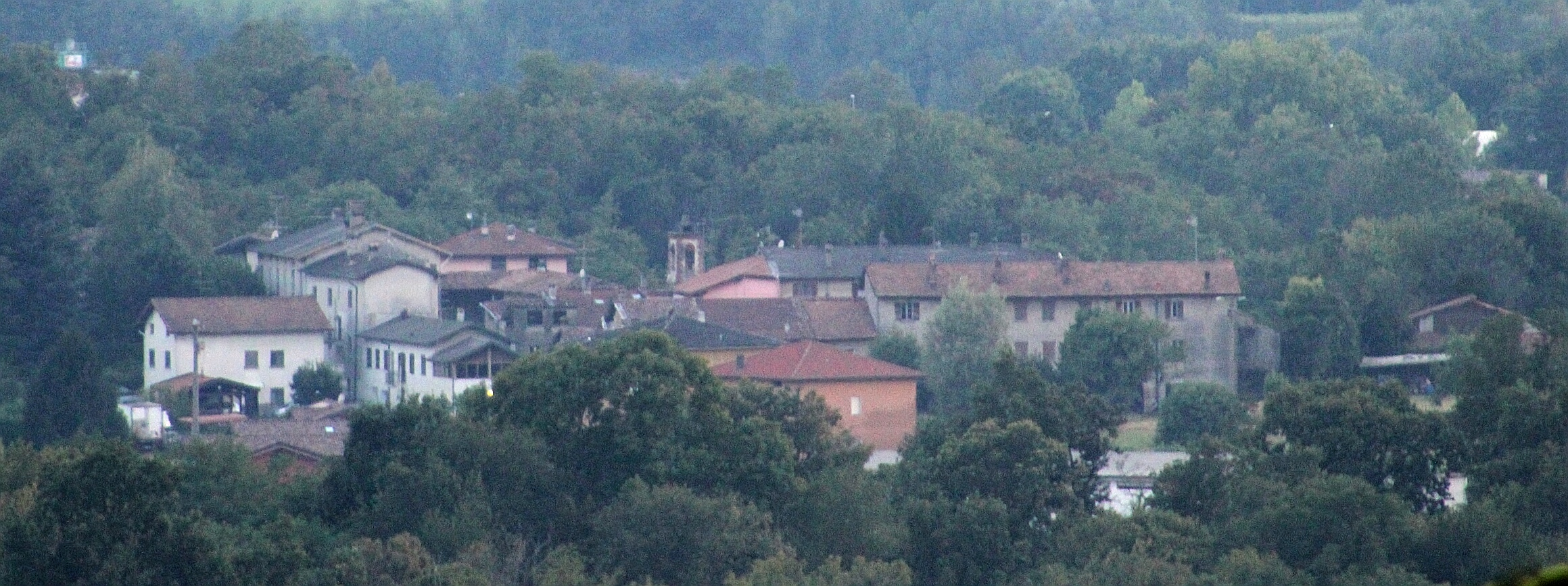 Faloppio (Bernasca)